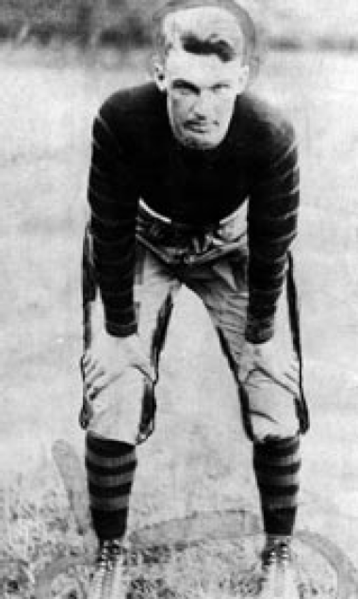 Jess Neely in uniform as circa 1921, on the Vanderbilt Commodores football team.